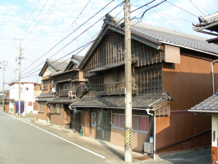 Traditional private houses in Kawasaki, Ise-shi, Mie, Japan. The first and the third ones from the right have a gable roof (Kiriduma-dukuri). The second from the right has a roof with eaves below the gables (Iriomoya-dukuri). All three houses have a door on the gable end (Tsuma-iri).